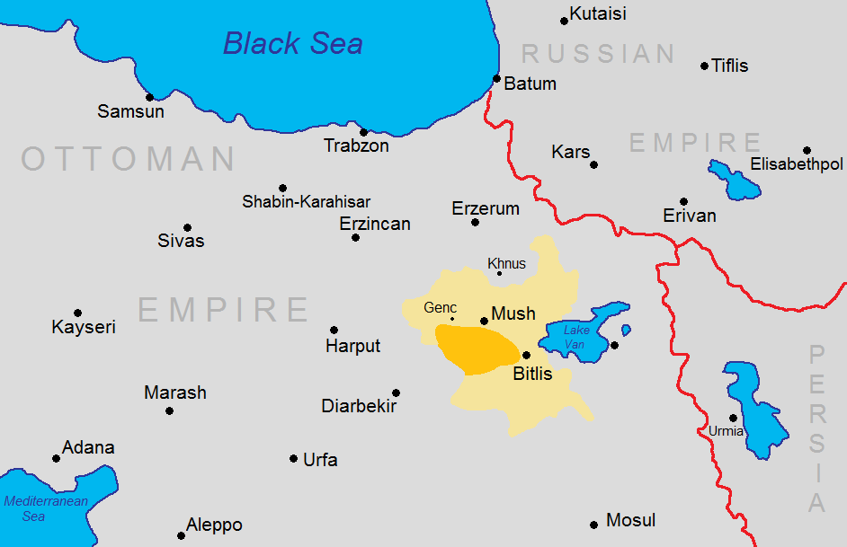 see 1894 Sasun rebellion and 1904 Sasun uprising